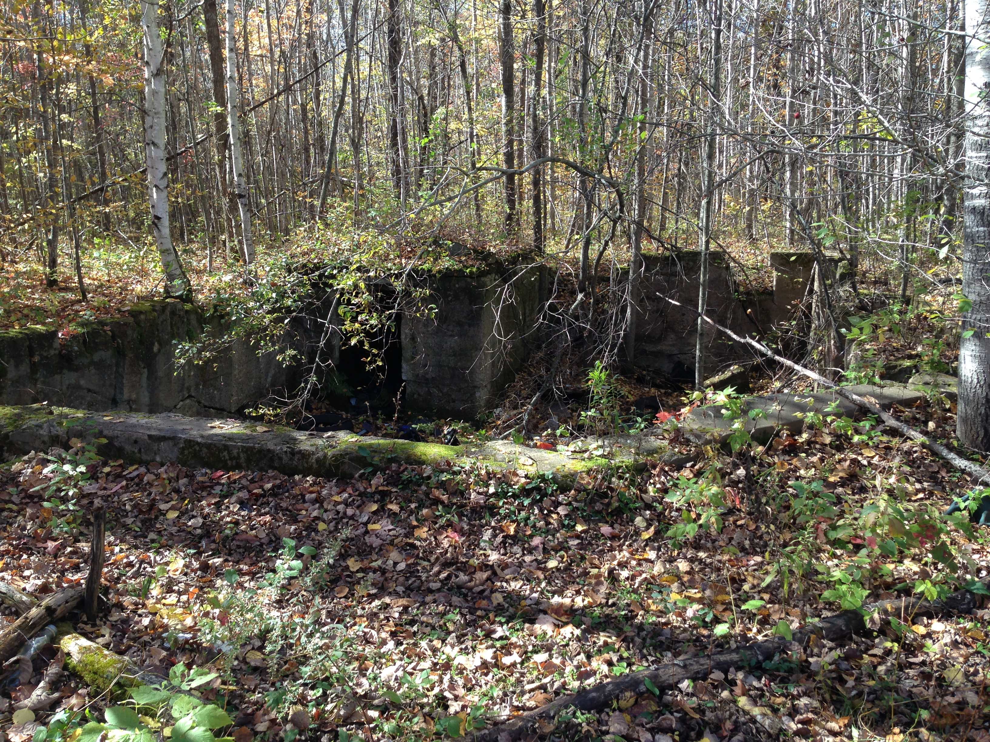 Building Foundation and Rubble, Manganese, Minnesota